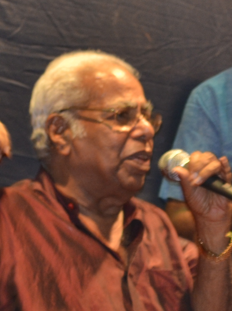 thilakan